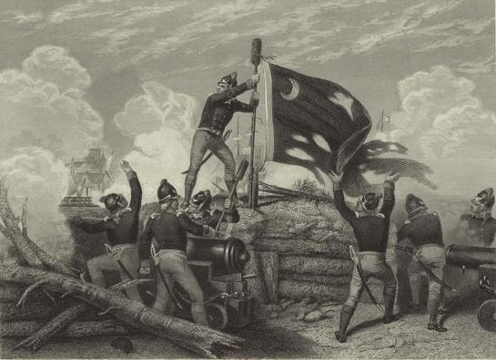 An image of Sgt. Jasper raising the battle flag of the colonial forces over present-day Fort Moultrie on June 28, 1776 during the Battle of Sullivan's Island.